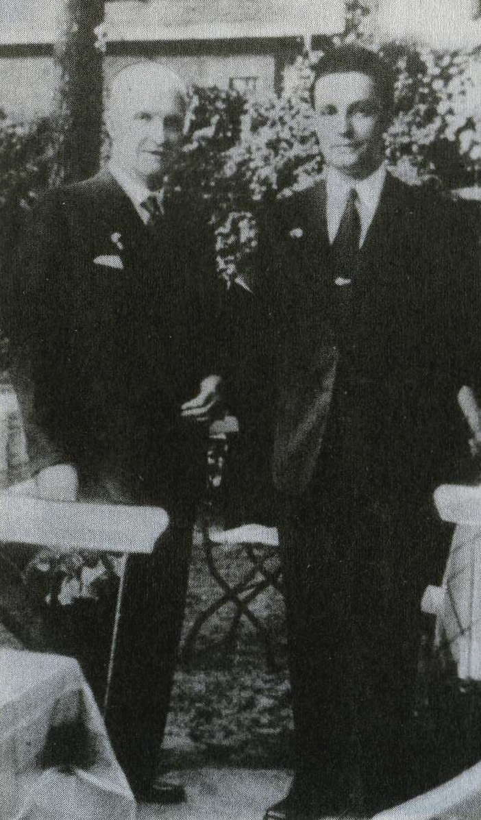 A photo of Hetman Pavlo Skoropadskiy standing with his son, Hetmanych Danylo Skoropadsky